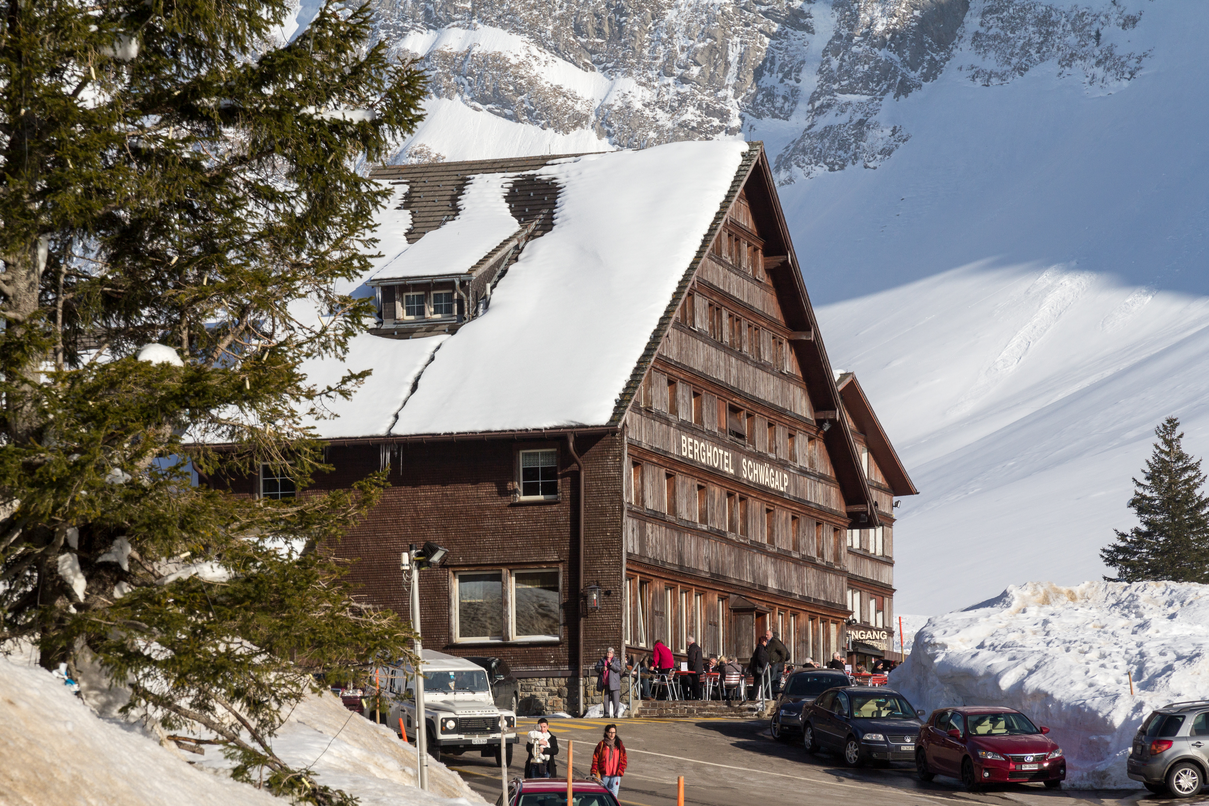 The old wooden "Berghotel Schwägalp" in March 2013 (Demolished in 2016), canton of Appenzell Ausserrhoden, Switzerland.